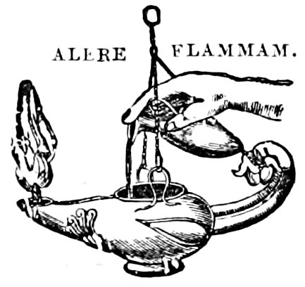 Logo of Taylor & Francis, a London printer. This is taken from the 1900 volume of the Ibis, a British ornithological journal.